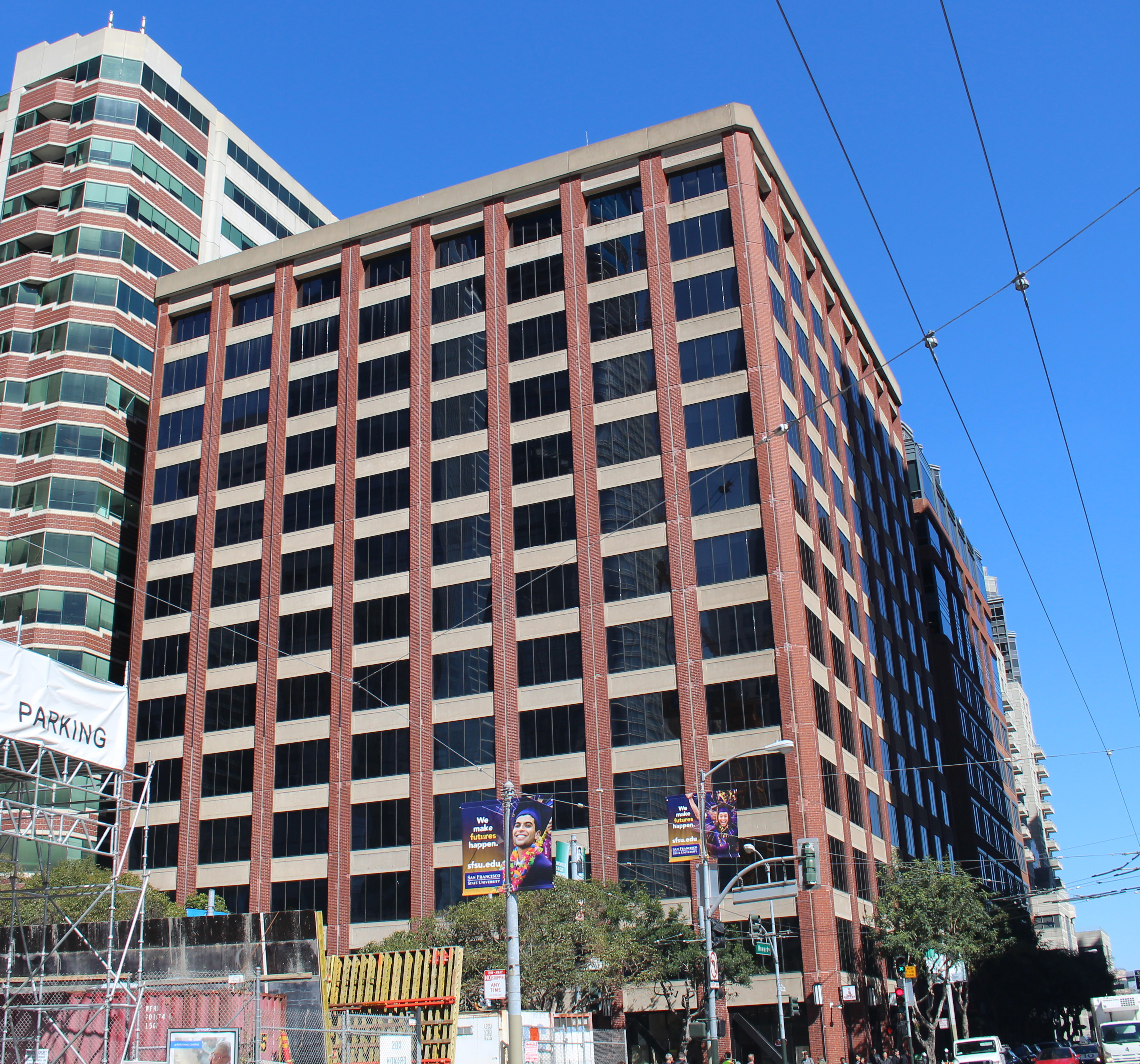 180 Howard Street in San Francisco, California. As of 2017, this office building was home to the headquarters of the State Bar of California. Photographed by user Coolcaesar on March 1, 2017.